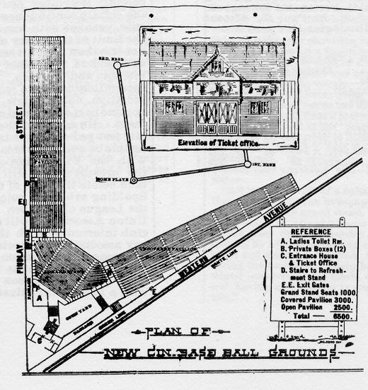 Cincinnati ballpark diagram, 1884